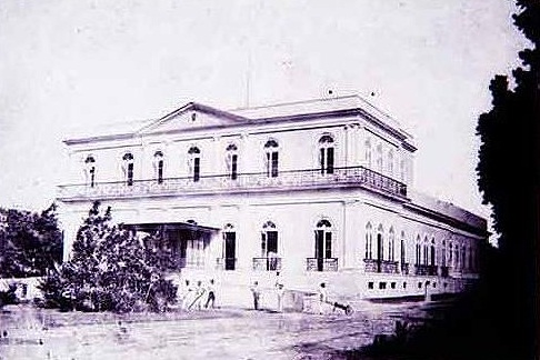 Palace Leopoldina, official residence of Princess Leopoldina and Prince Luis Augusto of Saxe in Rio de Janeiro, Brazil.